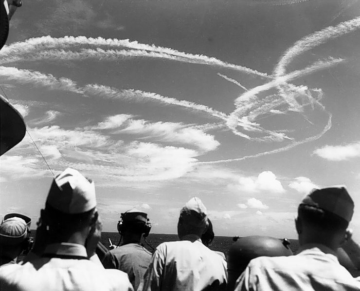 Fighter plane contrails mark the sky over Task Force 58, during the "Great Marianas Turkey Shoot" phase of the battle, 19 June 1944. Photographed from on board USS Birmingham (CL-62). (Battle of the Philippine Sea, June 1944)